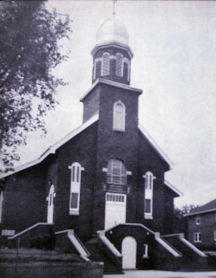 I used a digital camera to copy, crop, re-color an old snapshot.